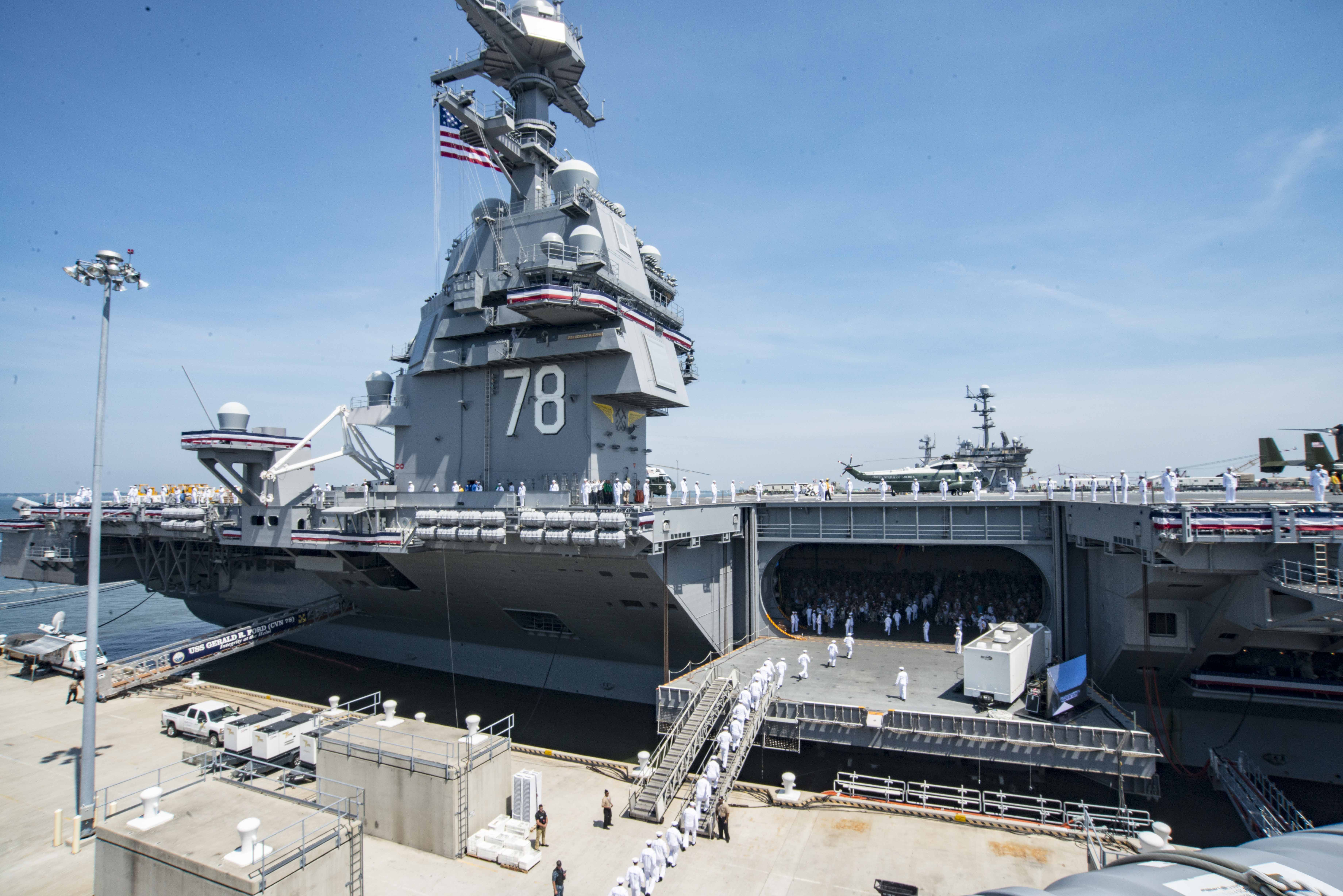 170722-N-WS581-072 NORFOLK (July 22, 2017) Sailors man the rails of the aircraft carrier USS Gerald R. Ford (CVN 78) during its commissioning ceremony at Naval Station Norfolk, Va. Ford is the lead ship of the Ford-class aircraft carriers, and the first new U.S. aircraft carrier designed in 40 years. (U.S. Navy photo by Mass Communication Specialist 2nd Class Andrew J. Sneeringer/Released)